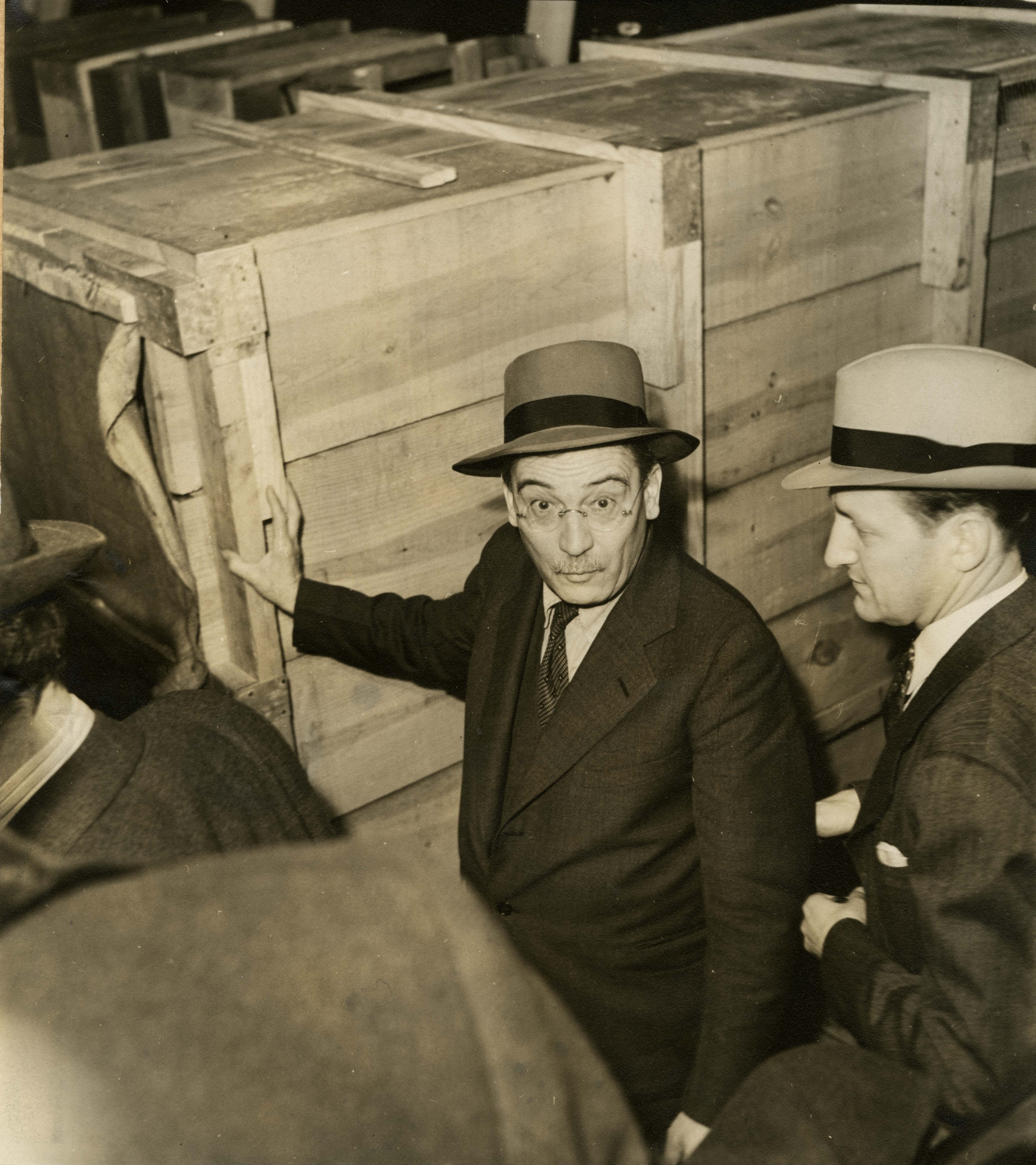 RU 007293, Box 24; William Mann inspecting the Buffalo crate on ship to Argentina. Scrapbook entitled "Argentina 1939" from the William M. Mann and Lucile Quarry Mann Papers. Related blog post: Can I Be Lucile Mann When I Grow Up?